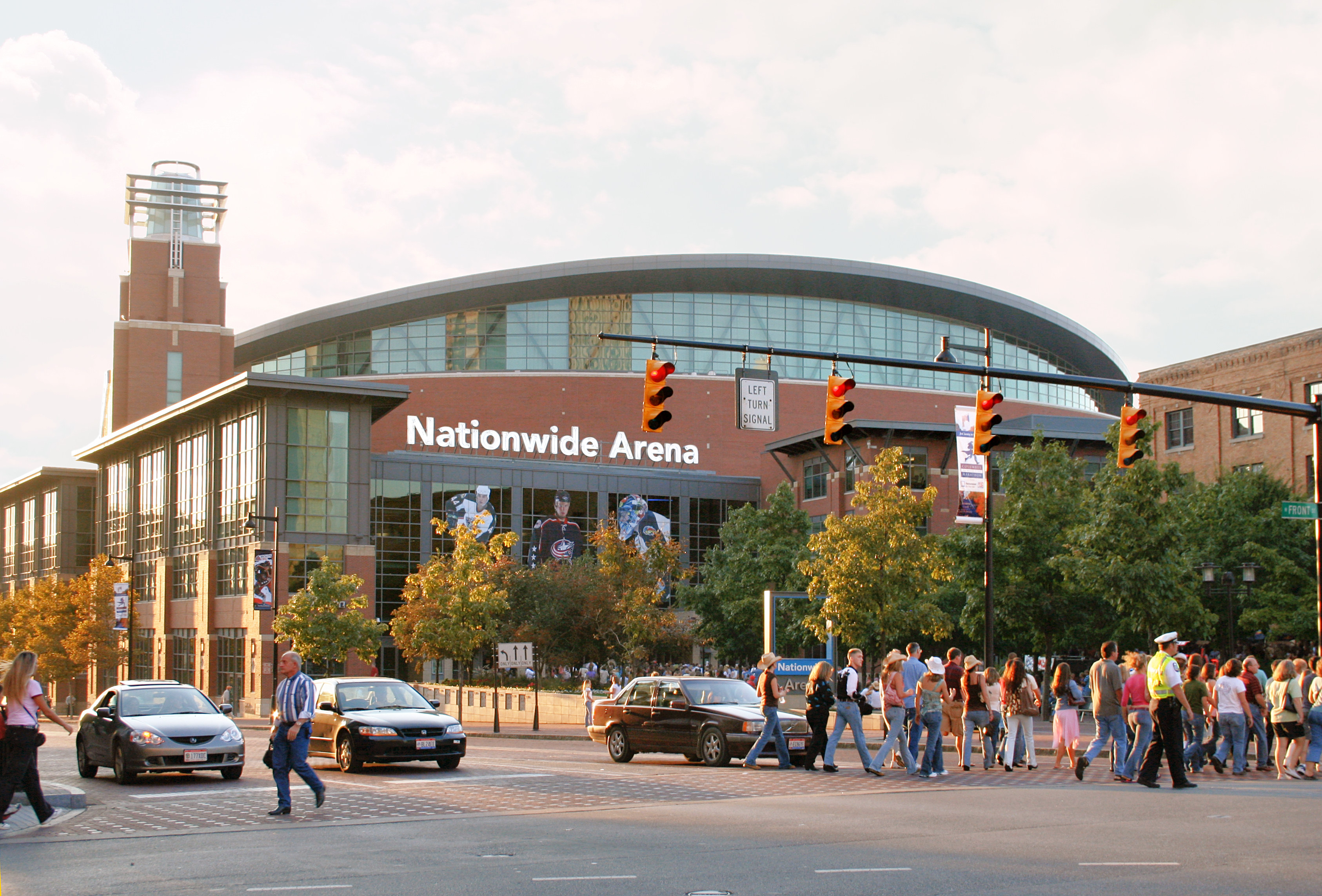 Nationwide Arena ice hockey stadium in Columbus, paid for by and named for Nationwide Mutual Insurance Company. Photo shot by Derek Jensen (Tysto), 2005-October-05